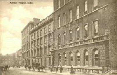 Old Postcard of Adelaide Hospital, Dublin